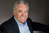 Rinaldo S. Brutoco is the Founder, Presidents & CEO of the World Business Academy